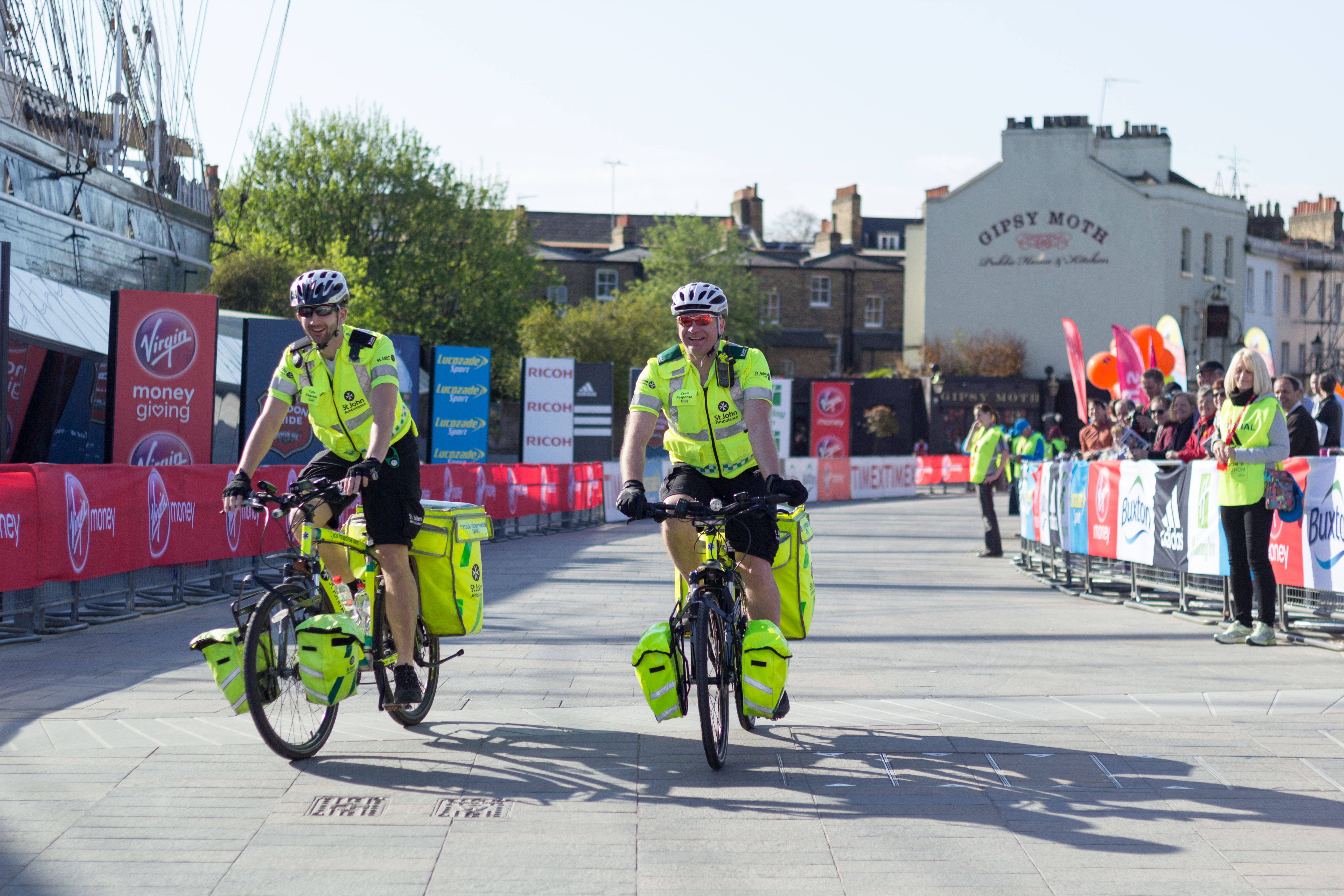 First aiders at the 2014 London Marathon.